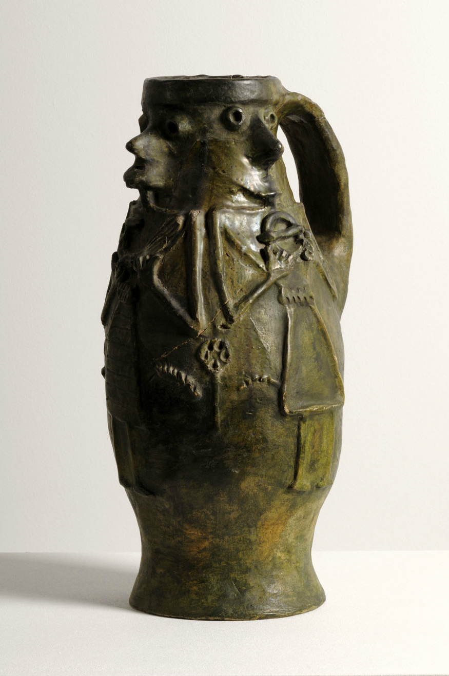 A 14th century face jug.